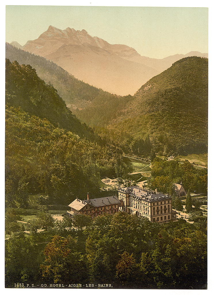 Hotel Aigle, Vaud Canton of Switzerland.